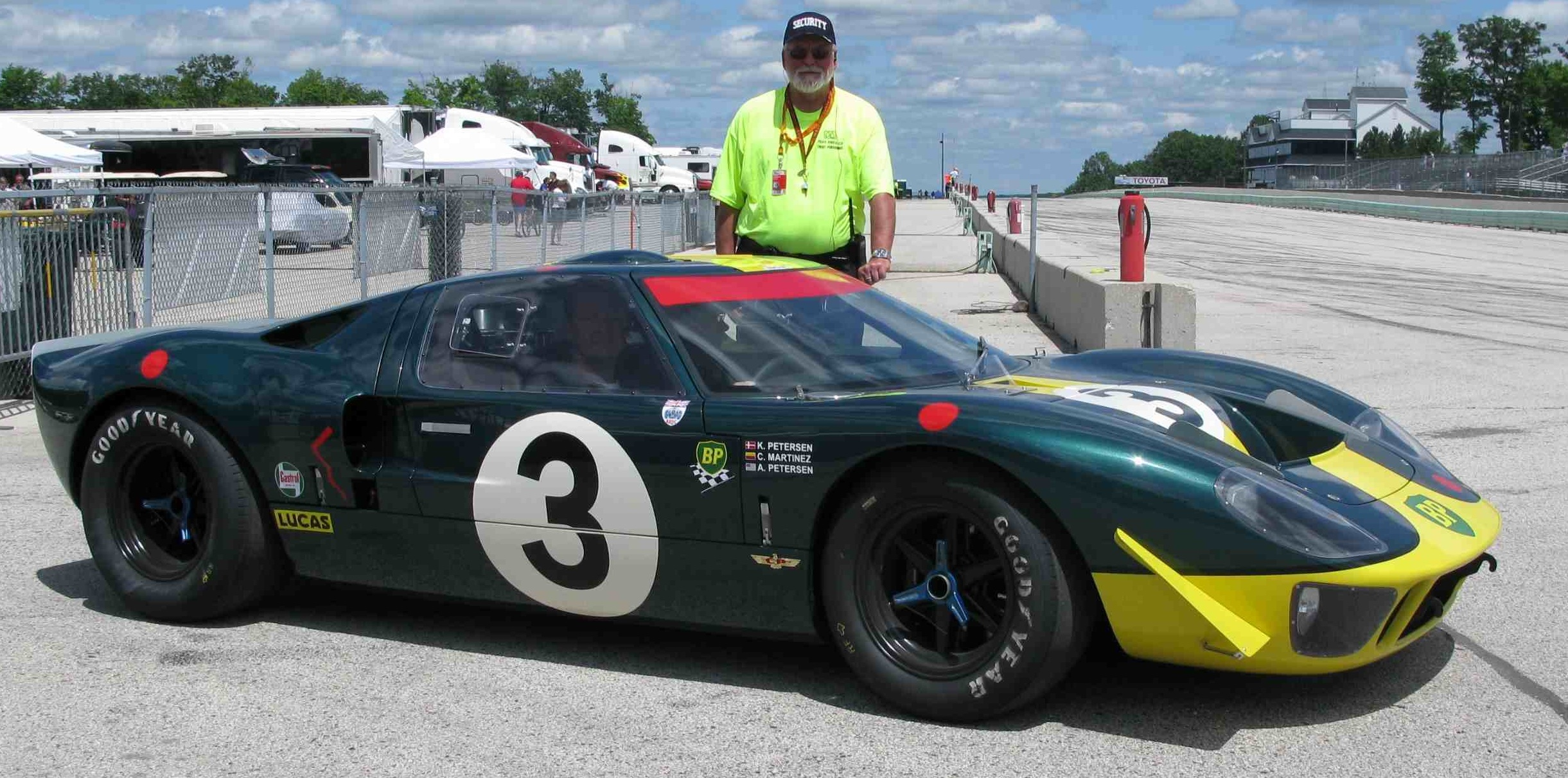 GT40/R Continuation Model racing at Road America's GT40 Reunion in July 2009. This is chassis number GT40P/2090 raced by Pathfinder Motorsports. It has a Holman Moody 289ci engine with Webers. This GT40 is registered in both the Shelby and Safir GT40 registers and has a Superformance-built chassis and won in its class the 2009 US Vintage Grand Prix at Watkins Glen, and later the 2009 New York Governor's Cup Race. For (Photo by Kim Petersen)